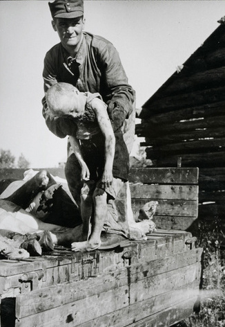 A Finnish child executed by Soviet Partisans in an attack to Finnish civilian village. One of 300 images declassified by the Finnish government in 2006 showing the Winter War and Continuation War against the Soviet Union from 1939–45.